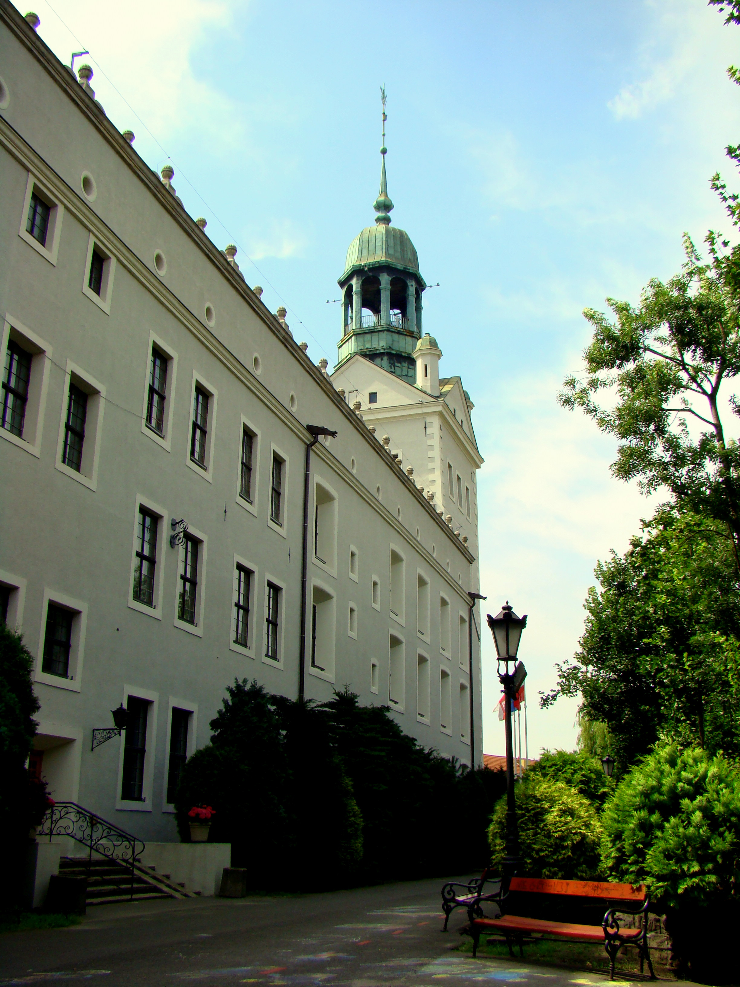 Pomeranian Dukes' Castle in Szczecin (Bell tower), Poland